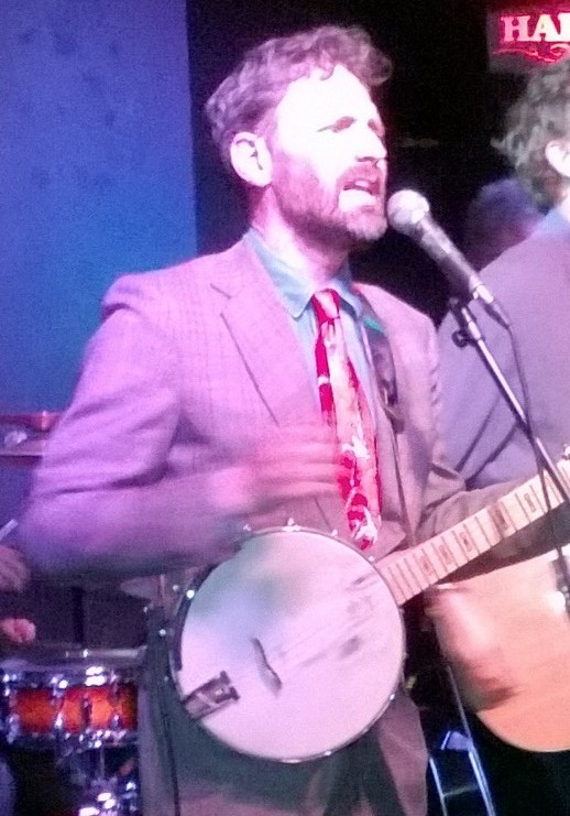 Tim Dowling playing the banjo on stage with the band Police Dog Hogan.